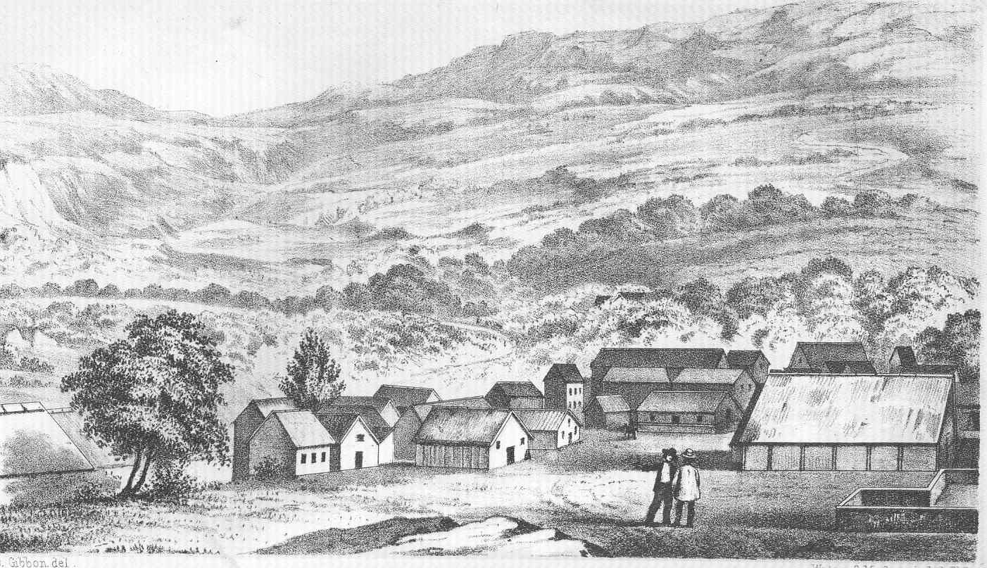 San Mateo Subject: San Mateo (Peru) Geographic Subject: Peru--San Mateo Tag: Coasts